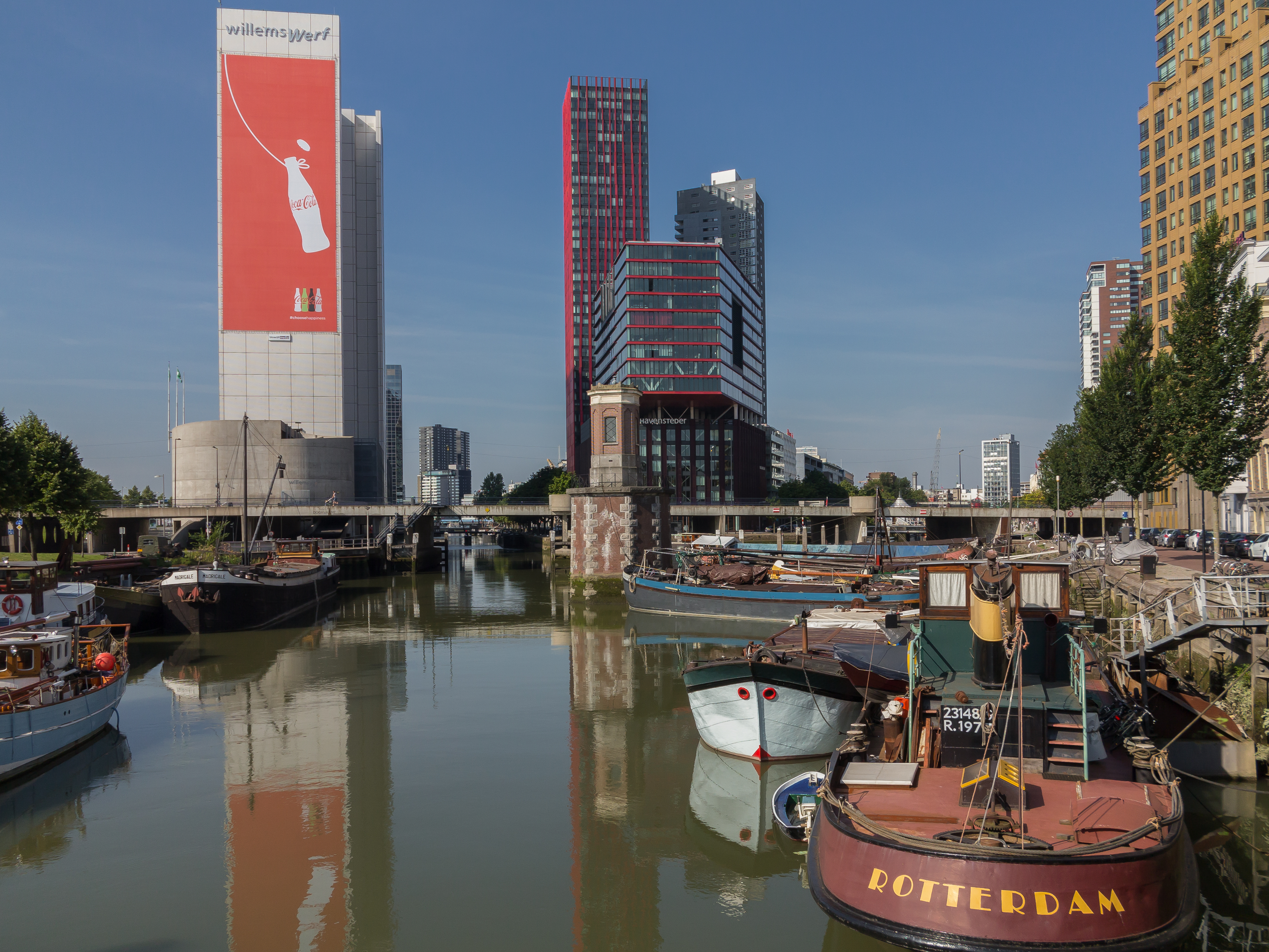 Rotterdam, view from a bridge (de Jan Kuitenbrug) to port (Wijnhaven)